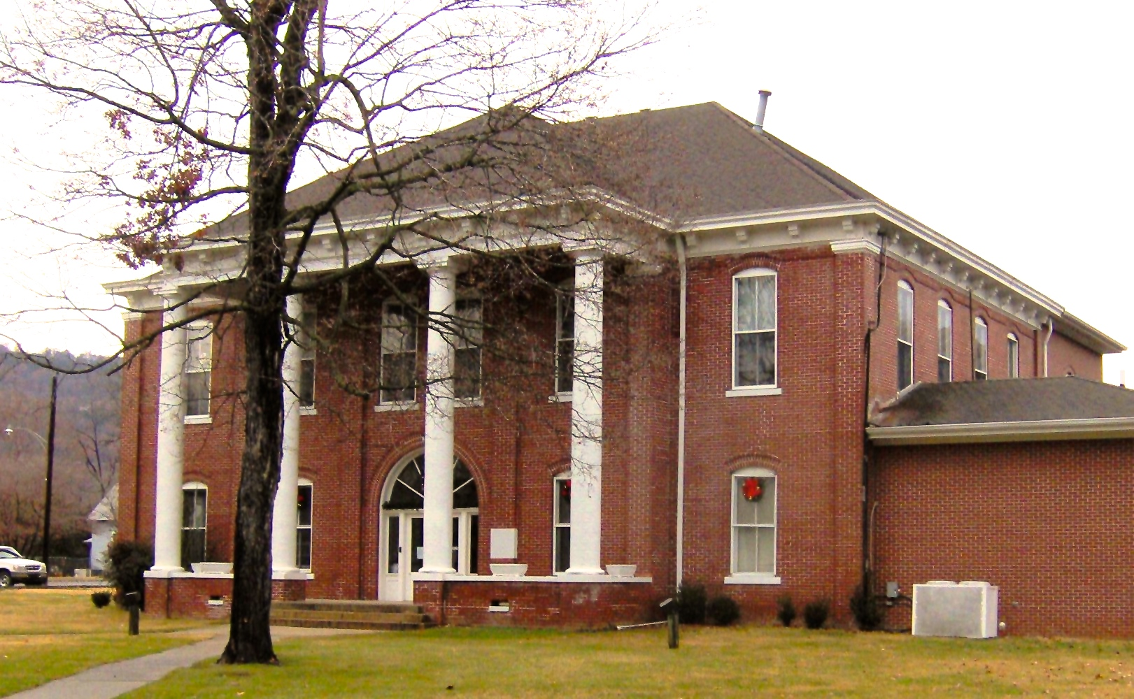 Sequatchie County Courthouse in Dunlap, Tennessee, in the southeastern United States. The courthouse was built in the early 1900s and placed on the National Register of Historic Places in 1980.